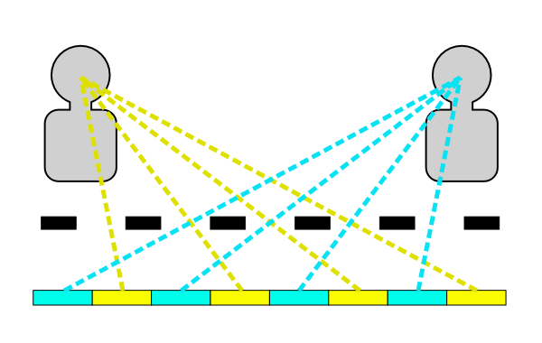 LCD schematic (Dual view)